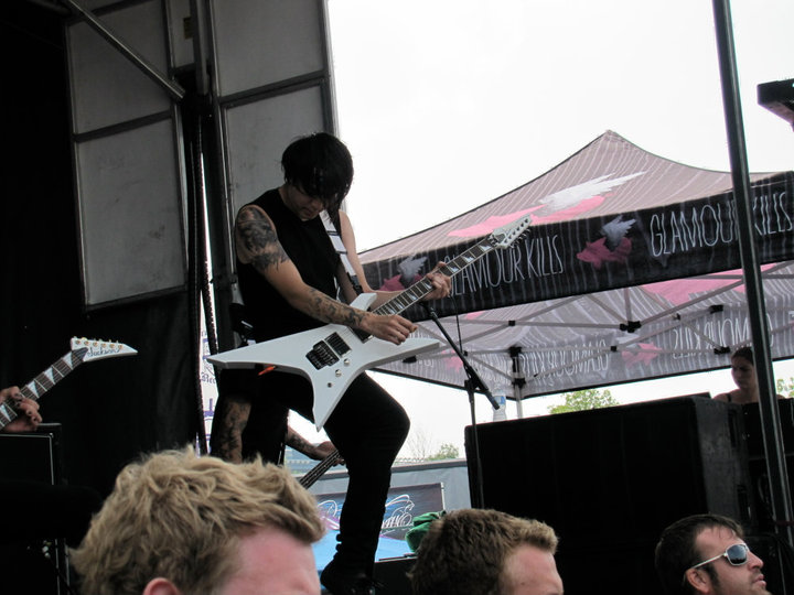 A picture of Alex Torres from Warped Tour 2010 with Alesana